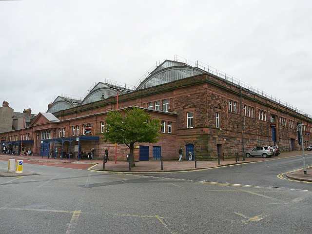 Victorian covered market, Carlisle This large building was opened in 1889. Refurbishment and interior alterations took place in the 1980's and 90's. A traditional indoor market was retained in this northern end of the building, now called The Market Hall.